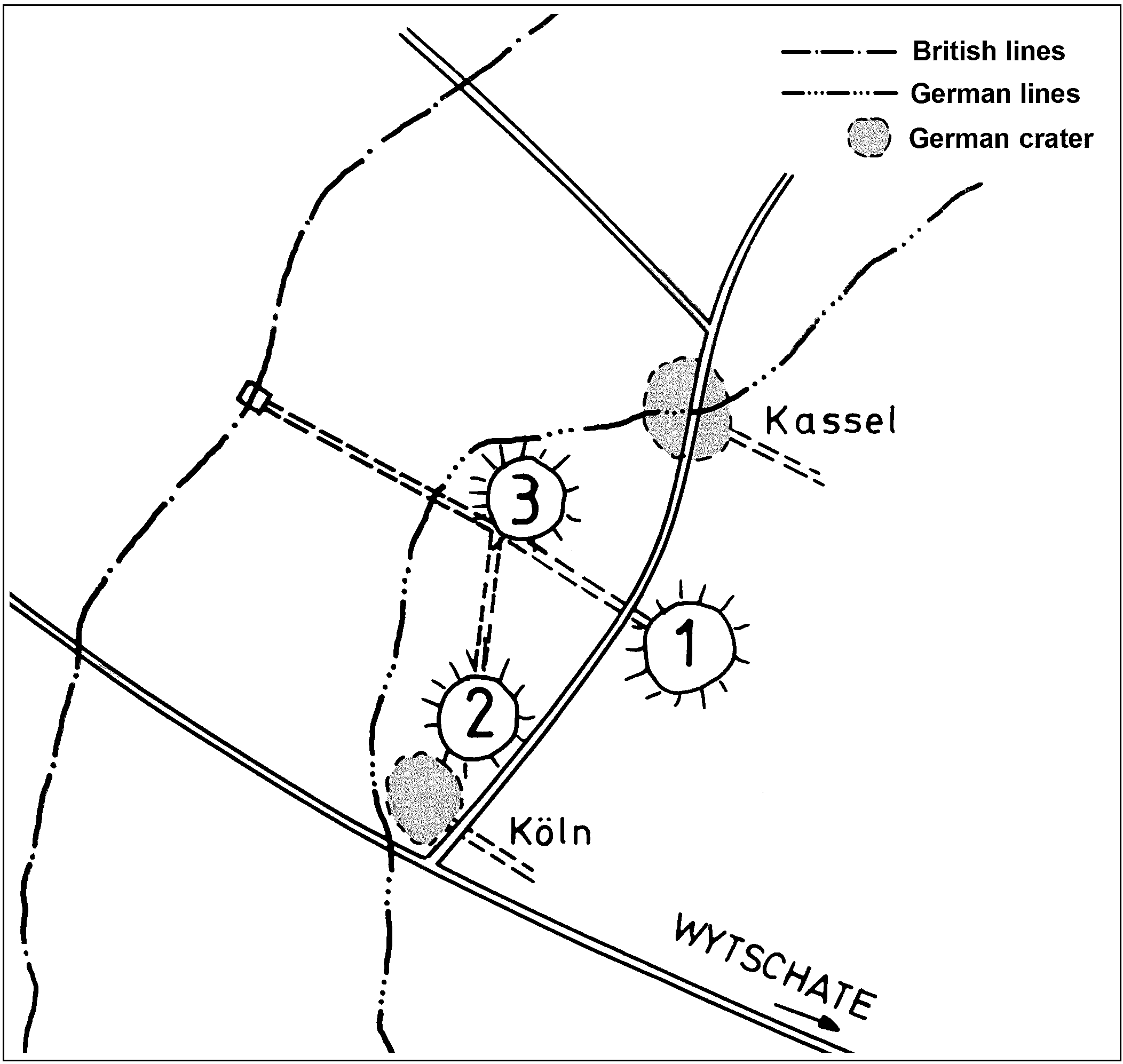 Plan of the mines at Hollandscheschur Farm, part of the mines placed by the tunnelling companies of the Royal Engineers in the Battle of Messines (1917). This drawing is based on the plans published in Roger Lampaert, De Mijnenoorlog in Vlaanderen 1914–1918, Roesbrugge/Belgium (Drukkerij Schoonaert) 1989.